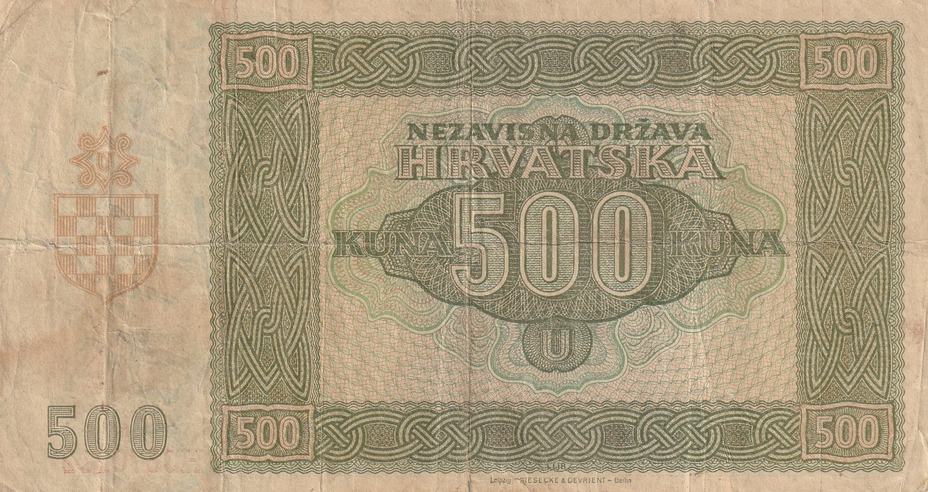 500 kuna 26. svibnja 1941.